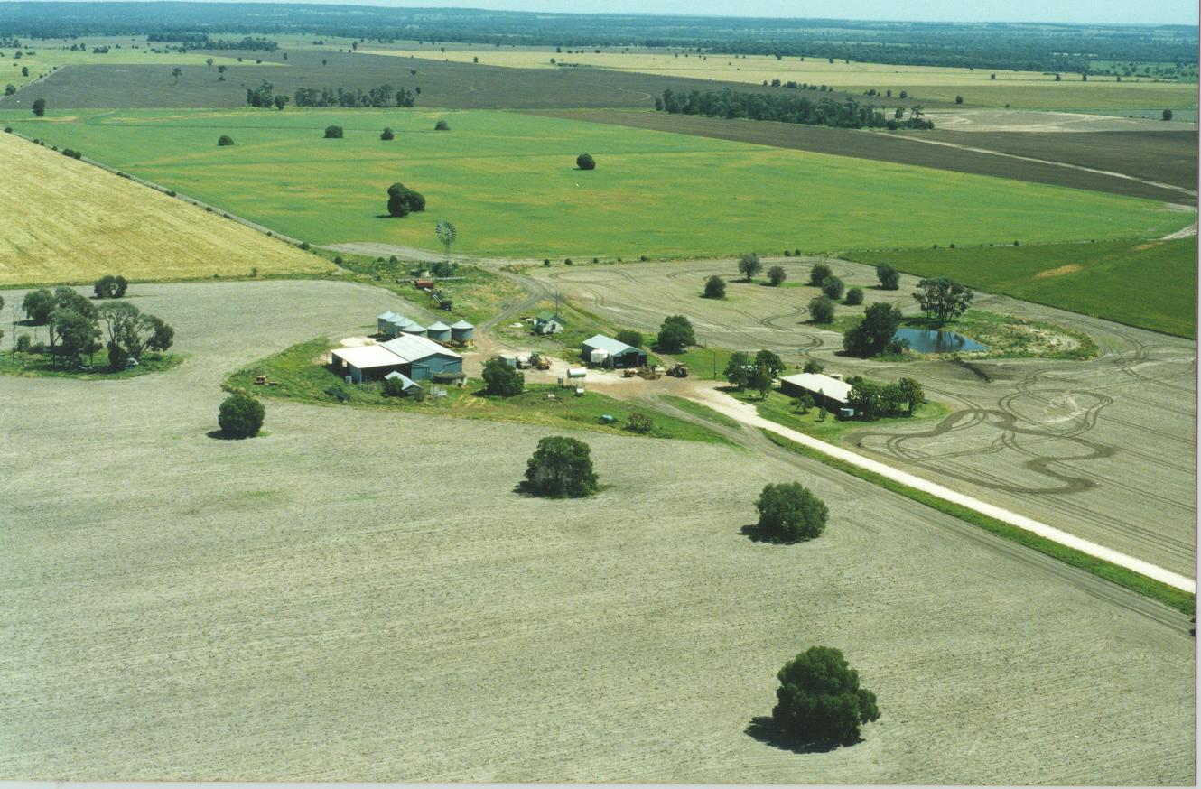 Airial view of a Hopeland property